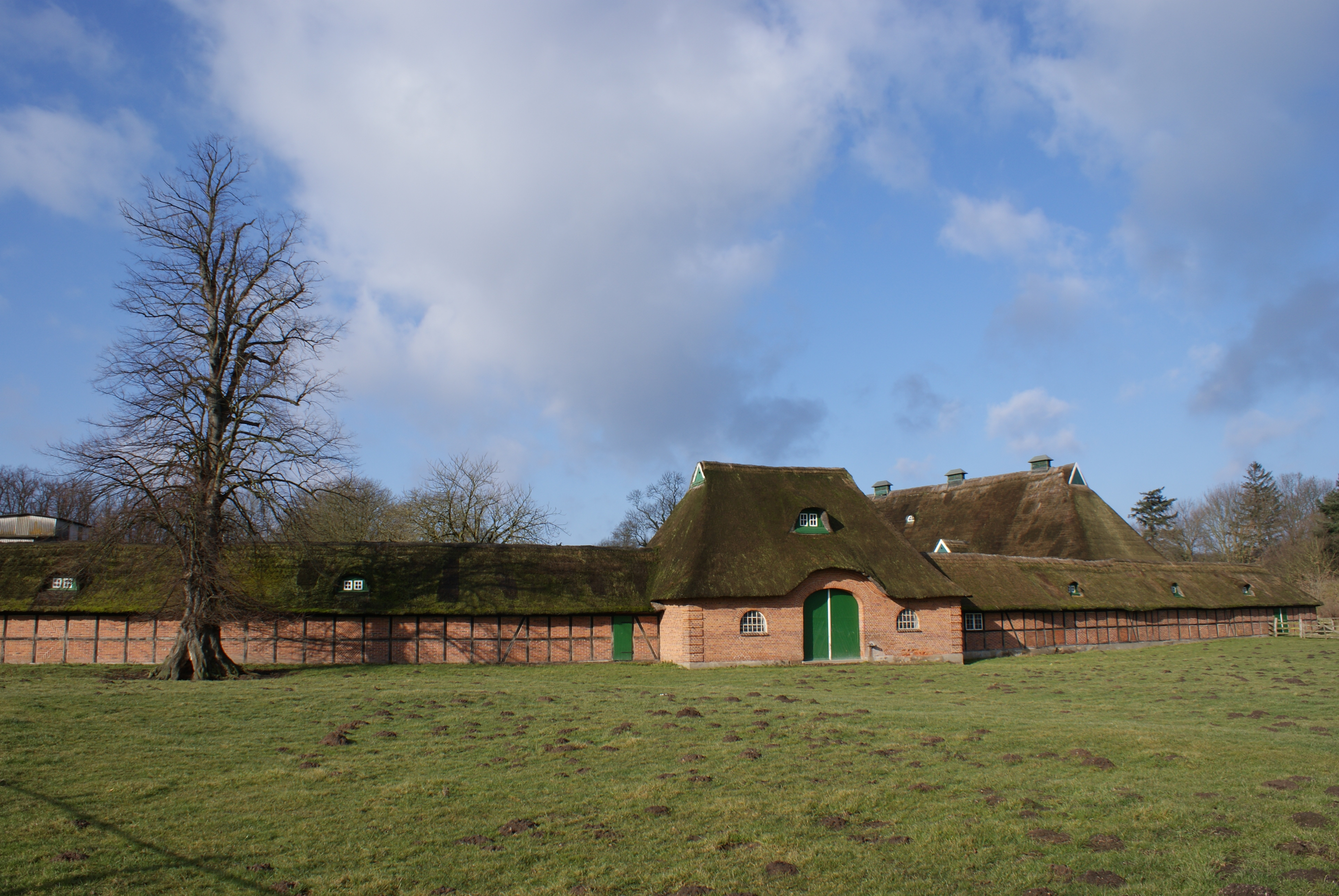 Gate of Ehlerstorf Manor